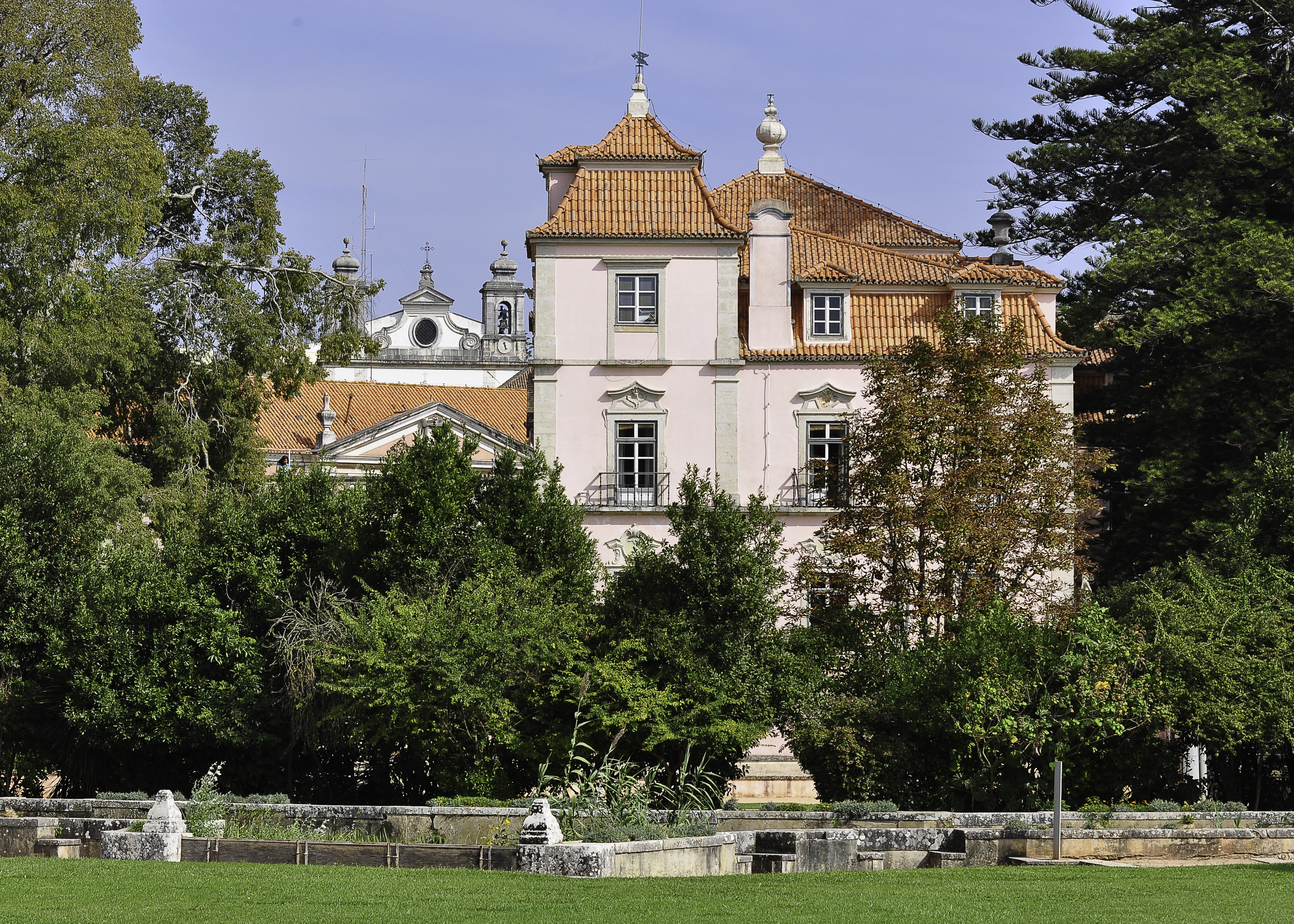 This file was uploaded for Wiki Loves Monuments in Portugal with the unique identifier 70640.